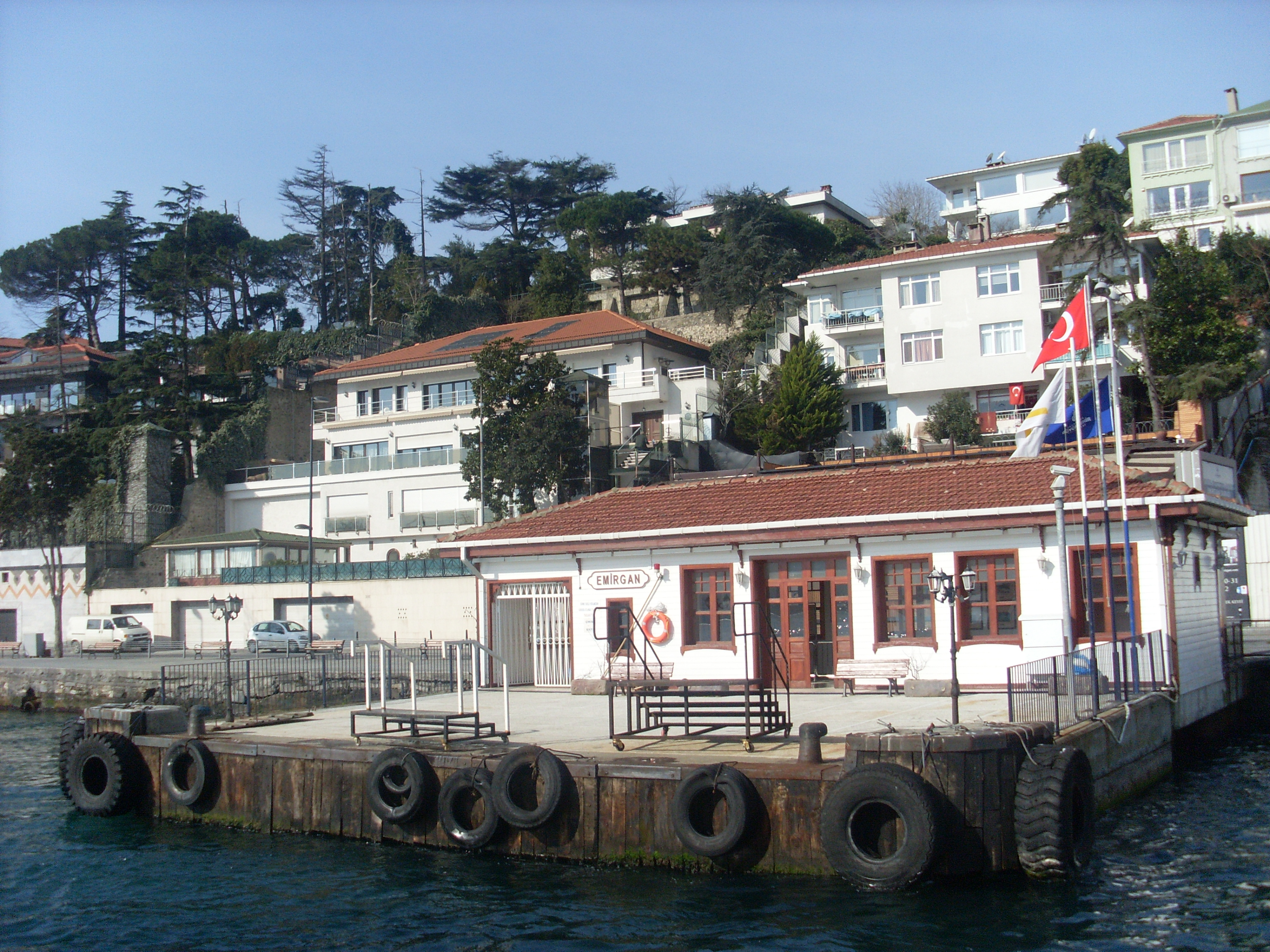 İstanbul - Emirgan, Sarıyer 2 - Feb 2013